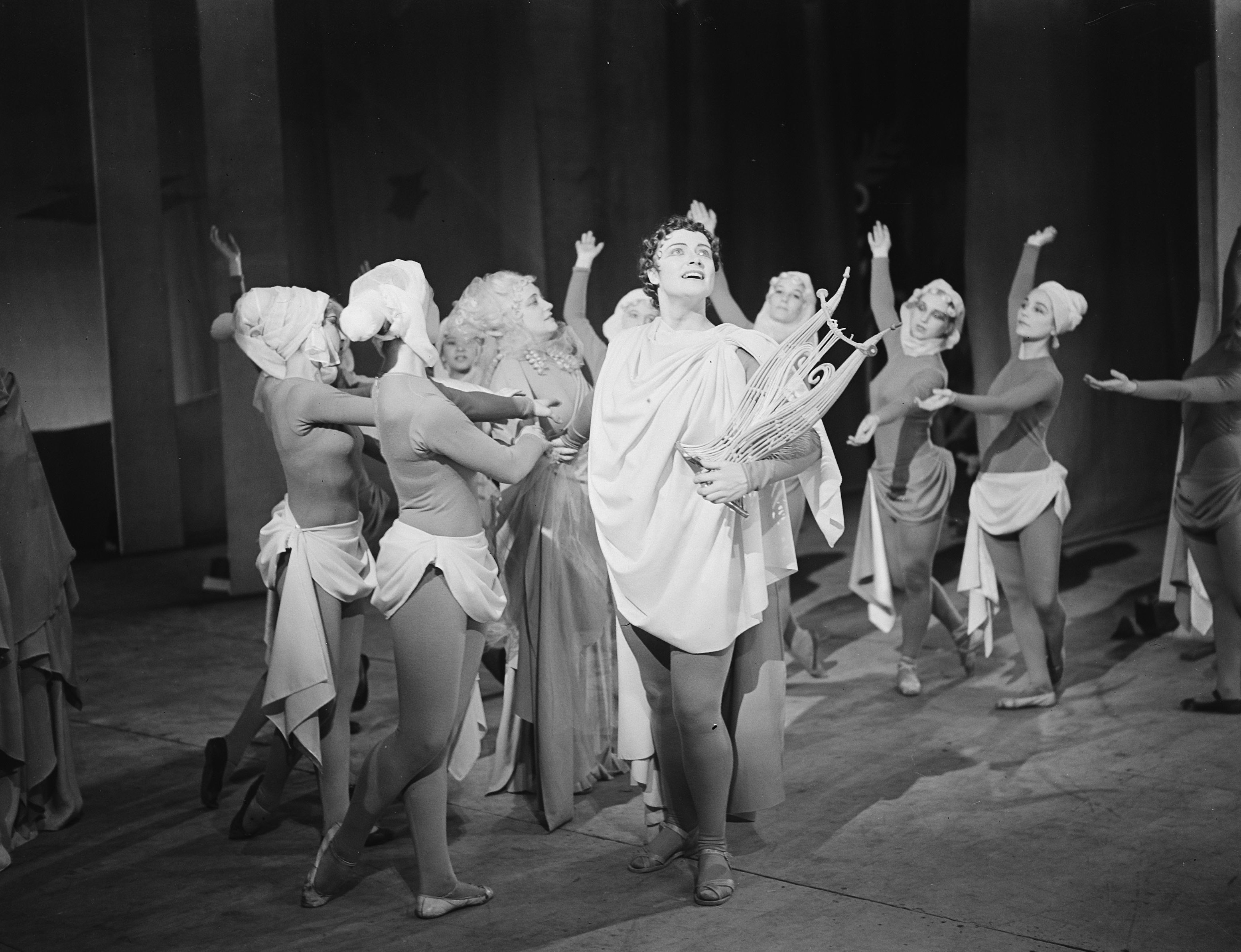 Kathleen Ferrier & Greet Koeman in Orfeo & Eurydice (the Netherlands, 23 June 1949